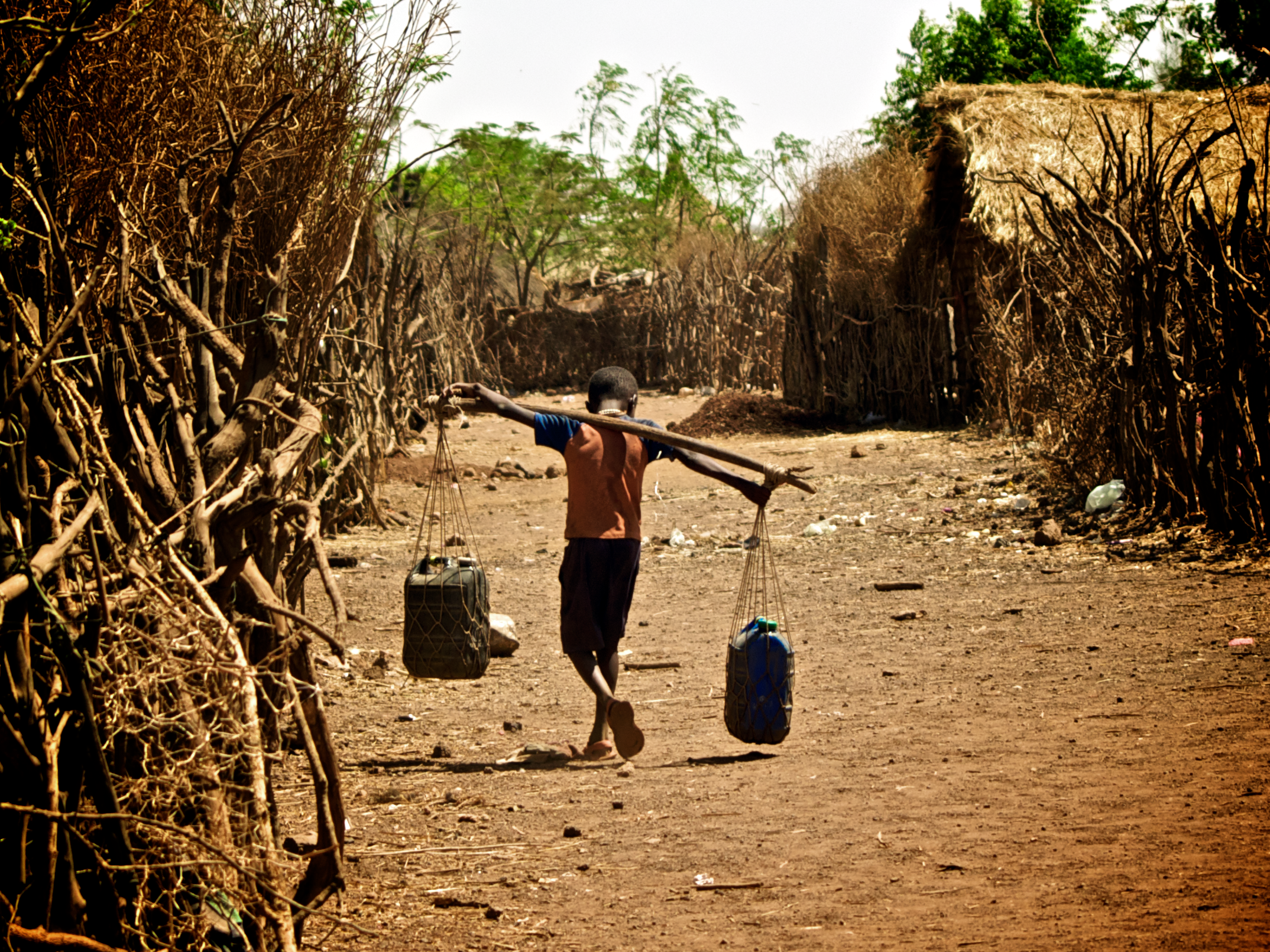 This photo is from the documentary Home Across Lands shot on location at The Shimelba Refugee Camp in Northern Ethiopia in 2008.